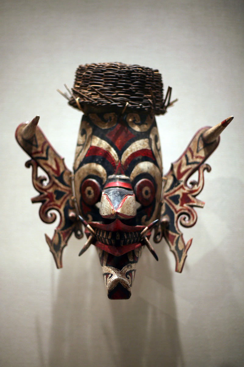 Mask (Hudoq), Late 19th–early 20th century Indonesia, Borneo, Kenyah/Kayan Wood, paint, fiber; H: 17 in. (43.2 cm) The Metropolitan Museum of Art, New York, Gift of Fred and Rita Richman, 1988 (1988.143.77) View at the Metropolitan Museum of Art website Wikipedia Loves Art at the Metropolitan Museum of Art This photo of item # 1988.143.77 at the Metropolitan Museum of Art was contributed under the team name "shooting_brooklyn" as part of the Wikipedia Loves Art project in February 2009. Metropolitan Museum of Art The original photograph on Flickr was taken by shooting brooklyn—please add a comment to the original Flickr page whenever a use has been made on Wikipedia or another project. Project galleries on Flickr: this institution, this team